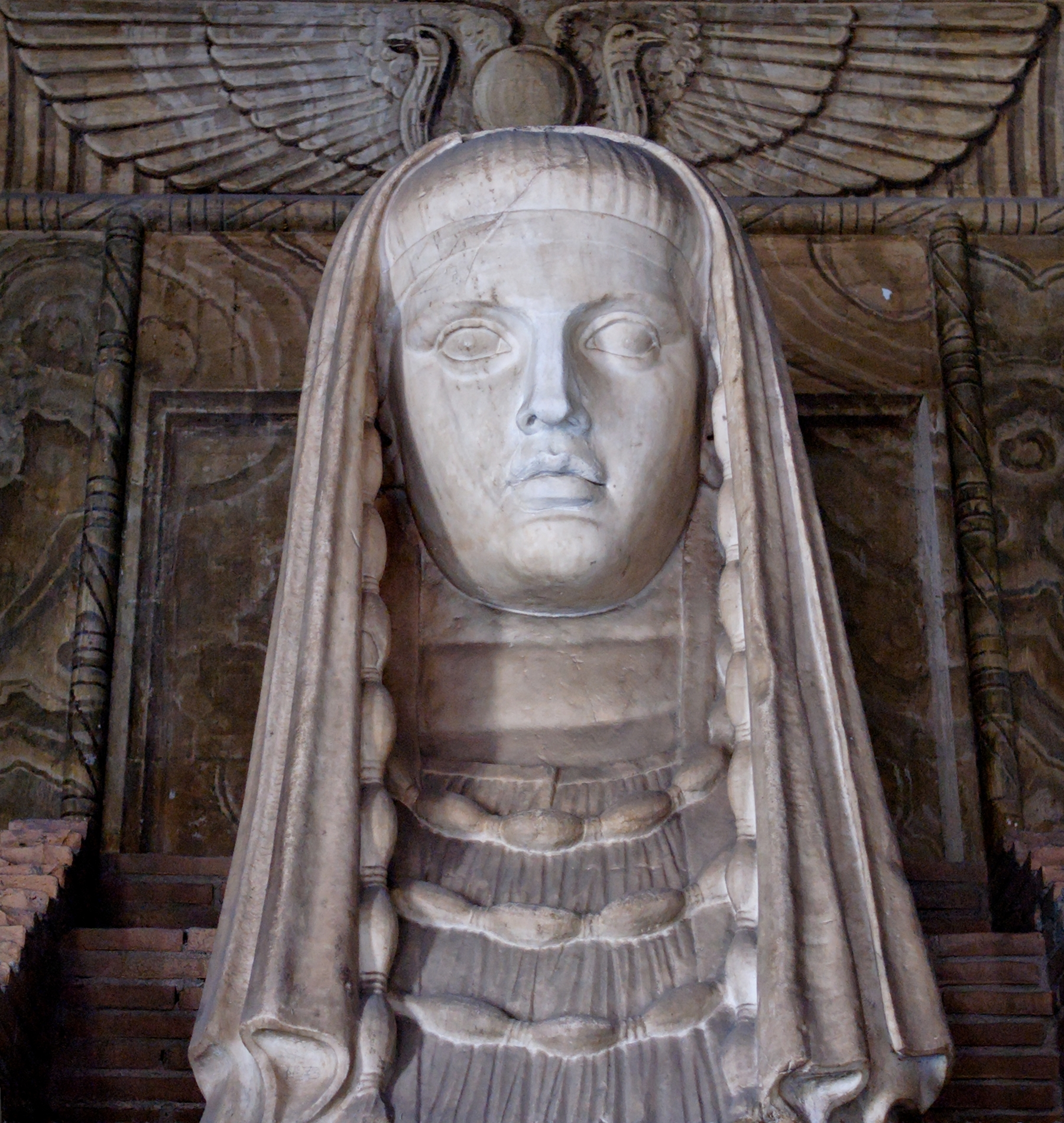 Bust of Isis-Sothis-Demeter. White marble, Roman artwork, second part of Hadrian's reign, ca. 131–138 CE. From the gymnasium in the Villa Adriana, near Tivoli, 1736.